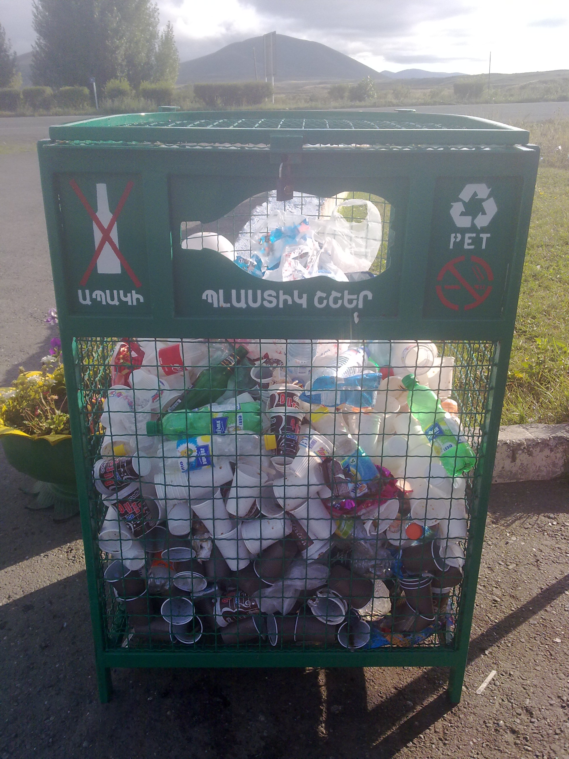 Waste container near M-4 road in Armenia, Sevan city